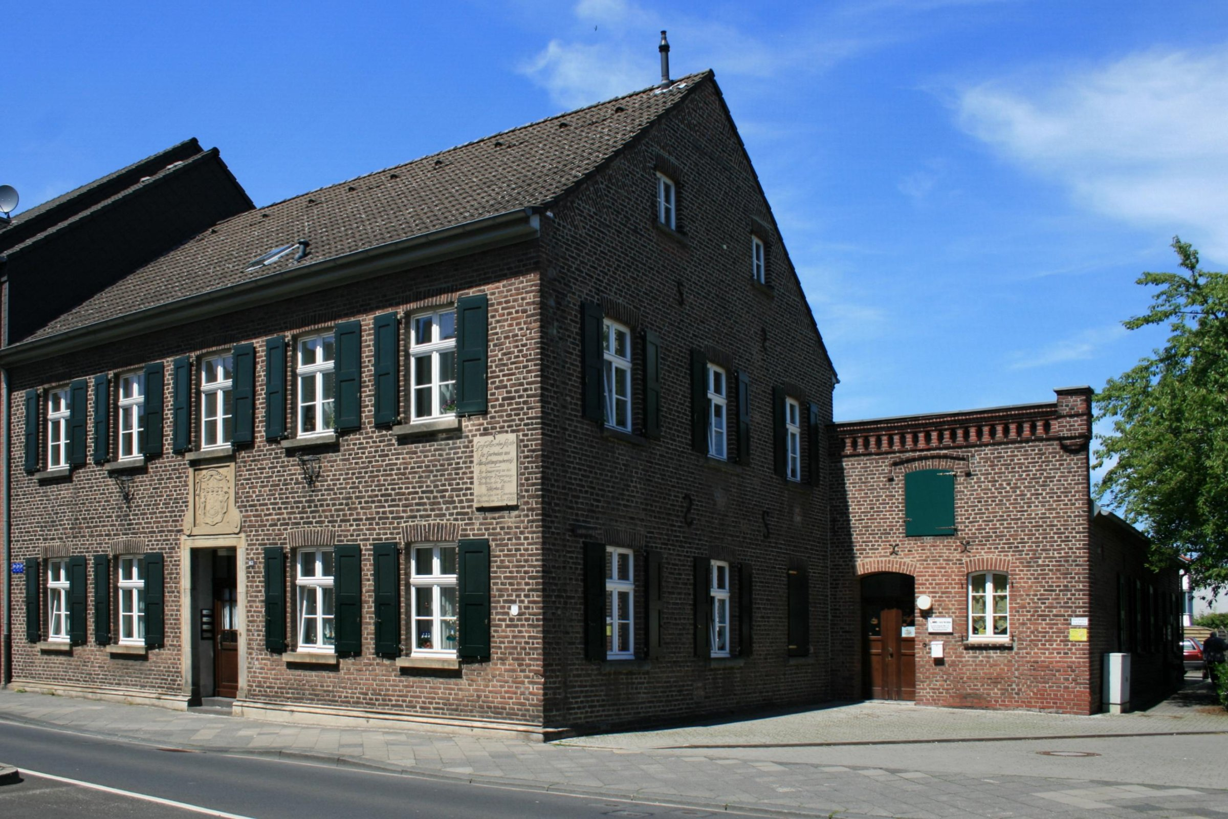 Cultural heritage monument No. D 025 in Mönchengladbach